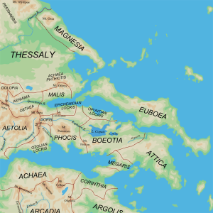 ancient greece